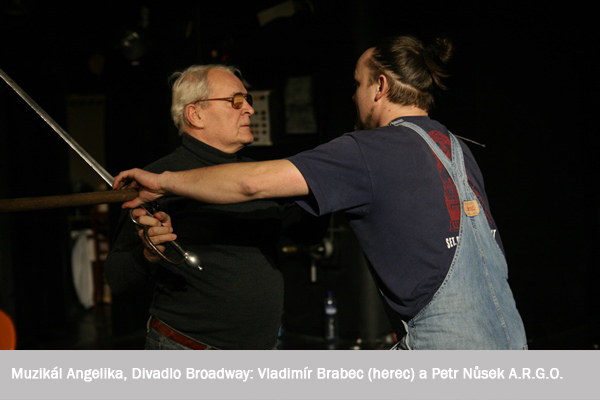 Petr Nůsek Personality rights warningAlthough this work is freely licensed or in the public domain, the person(s) shown may have rights that legally restrict certain re-uses unless those depicted consent to such uses. In these cases, a model release or other evidence of consent could protect you from infringement claims.